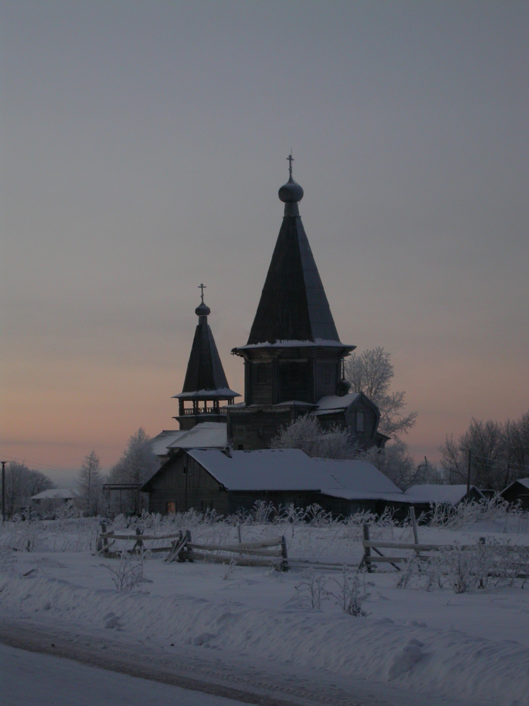 Lyadiny near Kargopol (Russia), Church of the Protection of the Theotokos.